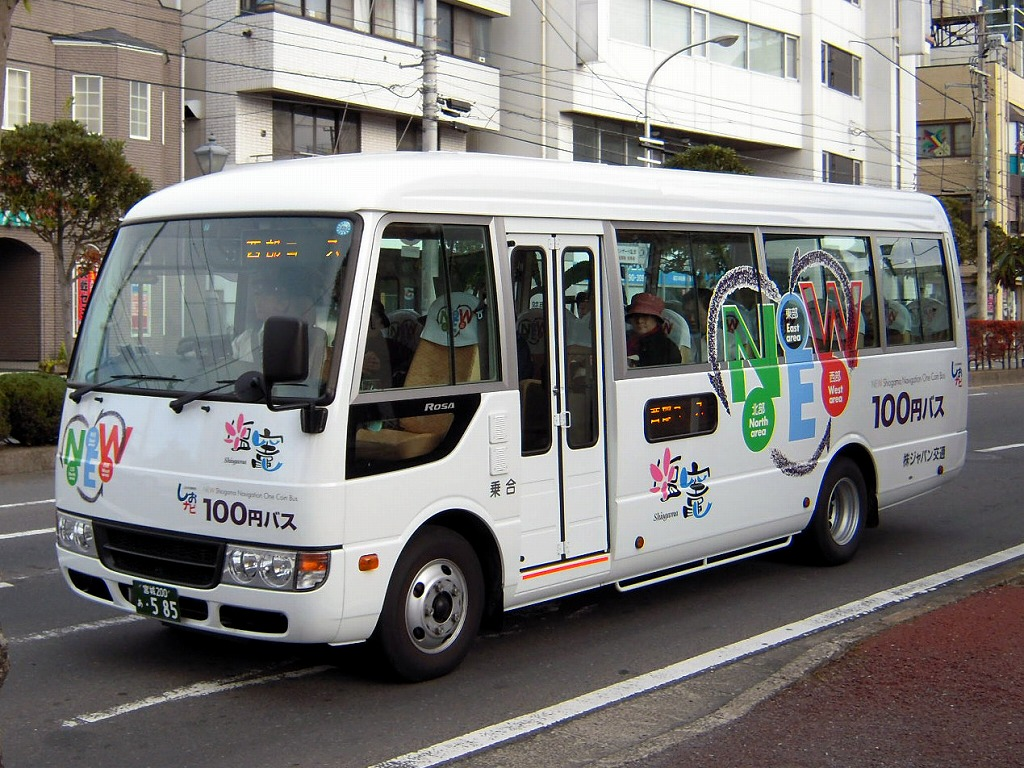 Japan kotsu Mitsubishi Fuso Rosa (PDG-BE63DG) New Shionavi 100yen bus(Shiogama city,Miyagi,Japan)